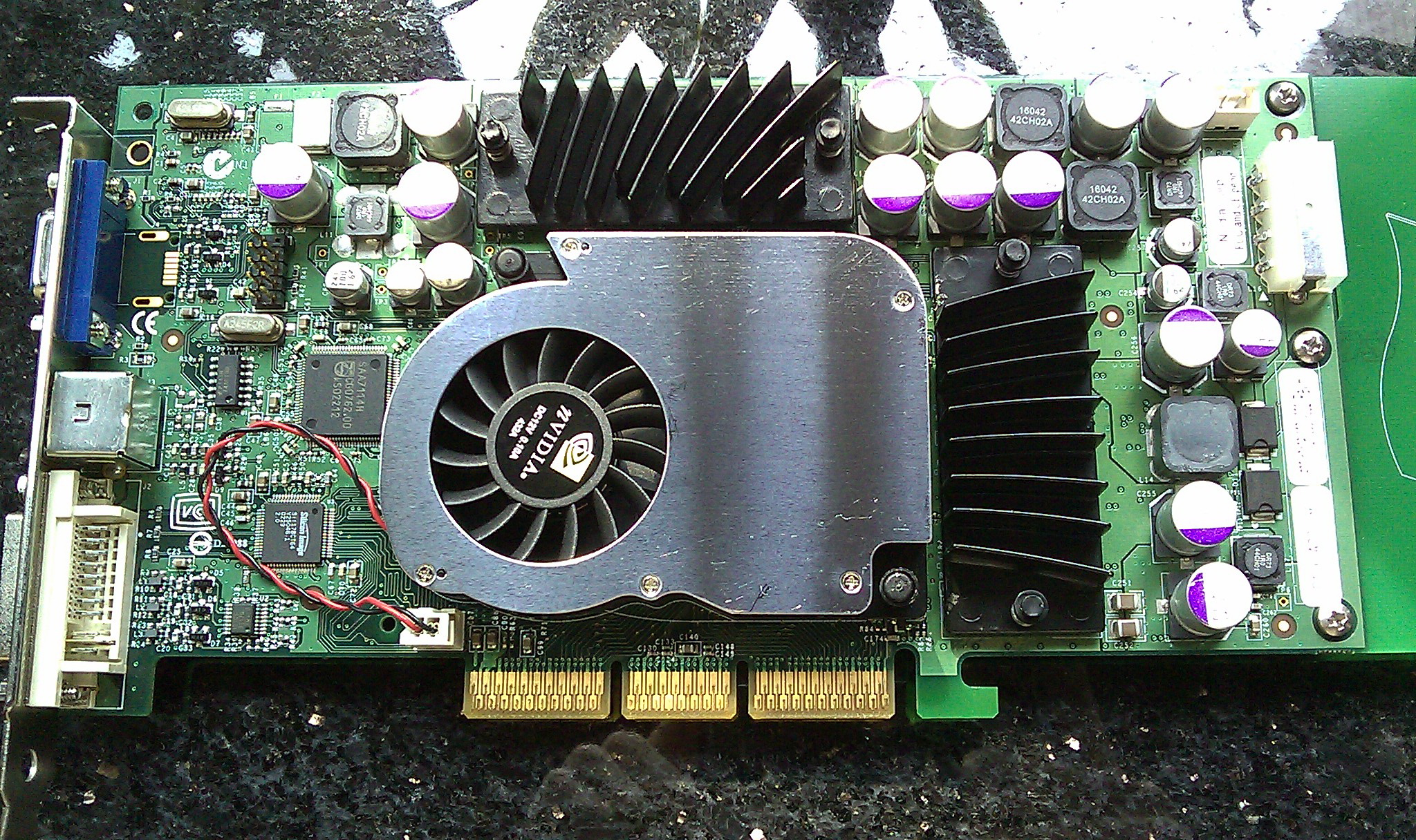 NVIDIA NV30GL ES Graphic card